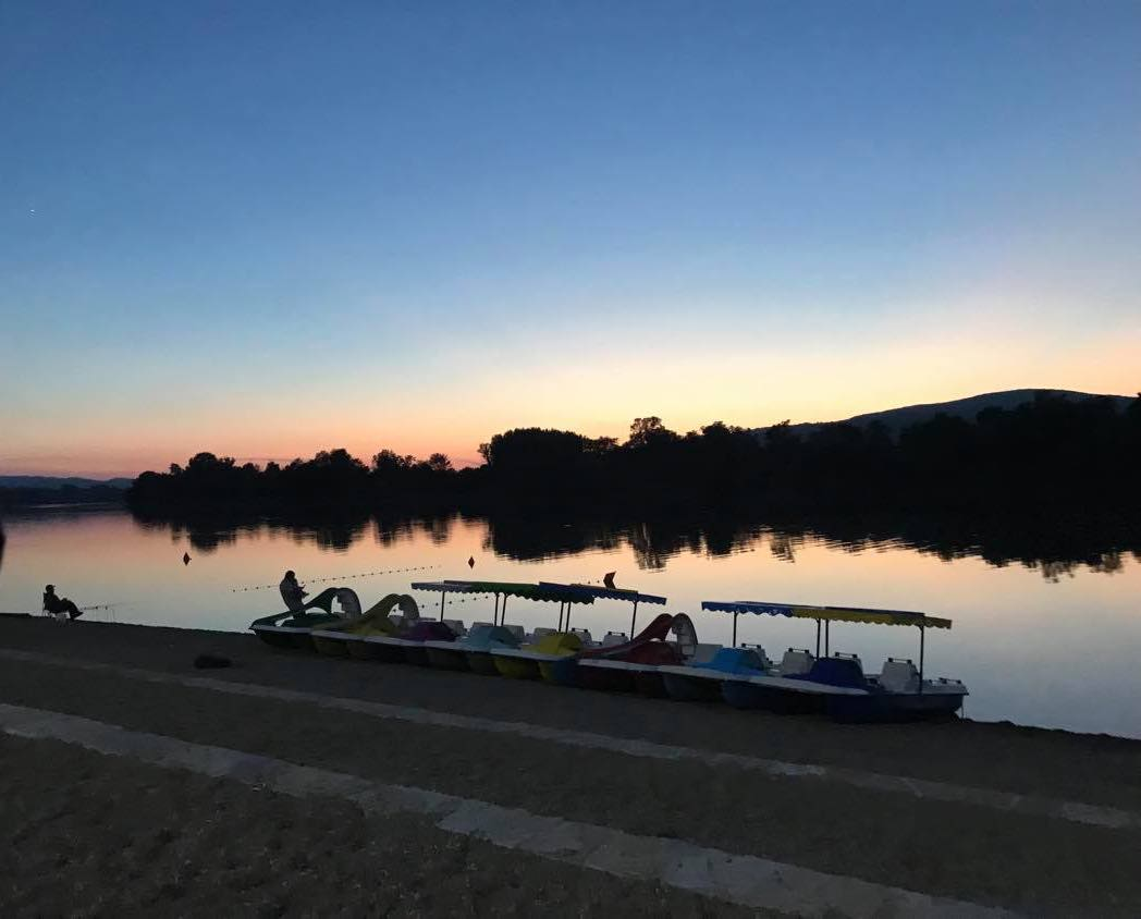 It represents a sunset of the Silver Lake Srpski (latinica): Slika predstavlja zalazak sunca na Srebrnom jezeru.